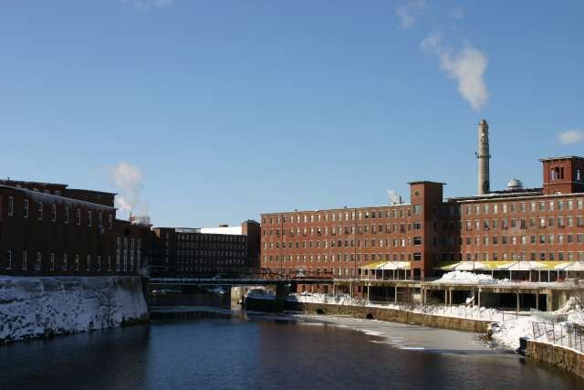 While some parts of the Saco and Biddeford mills are functional, a large percentage is unused and deserted.